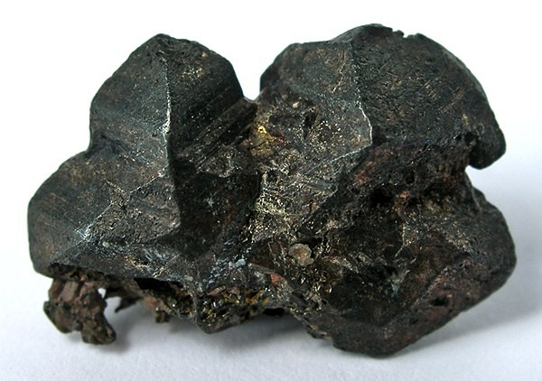 Copper, Tenorite Locality: Phoenix Mine, Phoenix, Keweenaw County, Michigan, USA (Locality at ) Size: 1.7 x 1.1 x 0.5 cm. Lustrous, super-sharp, tenorite-coated copper crystals comprise this classic, KILLER, old-time thumbnail from the famous Phoenix Mine of Michigan. Ex. Seaman Museum Collection.